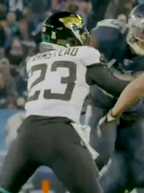 Ryquell Armstead 2019. Image from video Titans Mic'd Up vs. Jaguars (Week 12) | Sounds of the Game, ~ 02:31